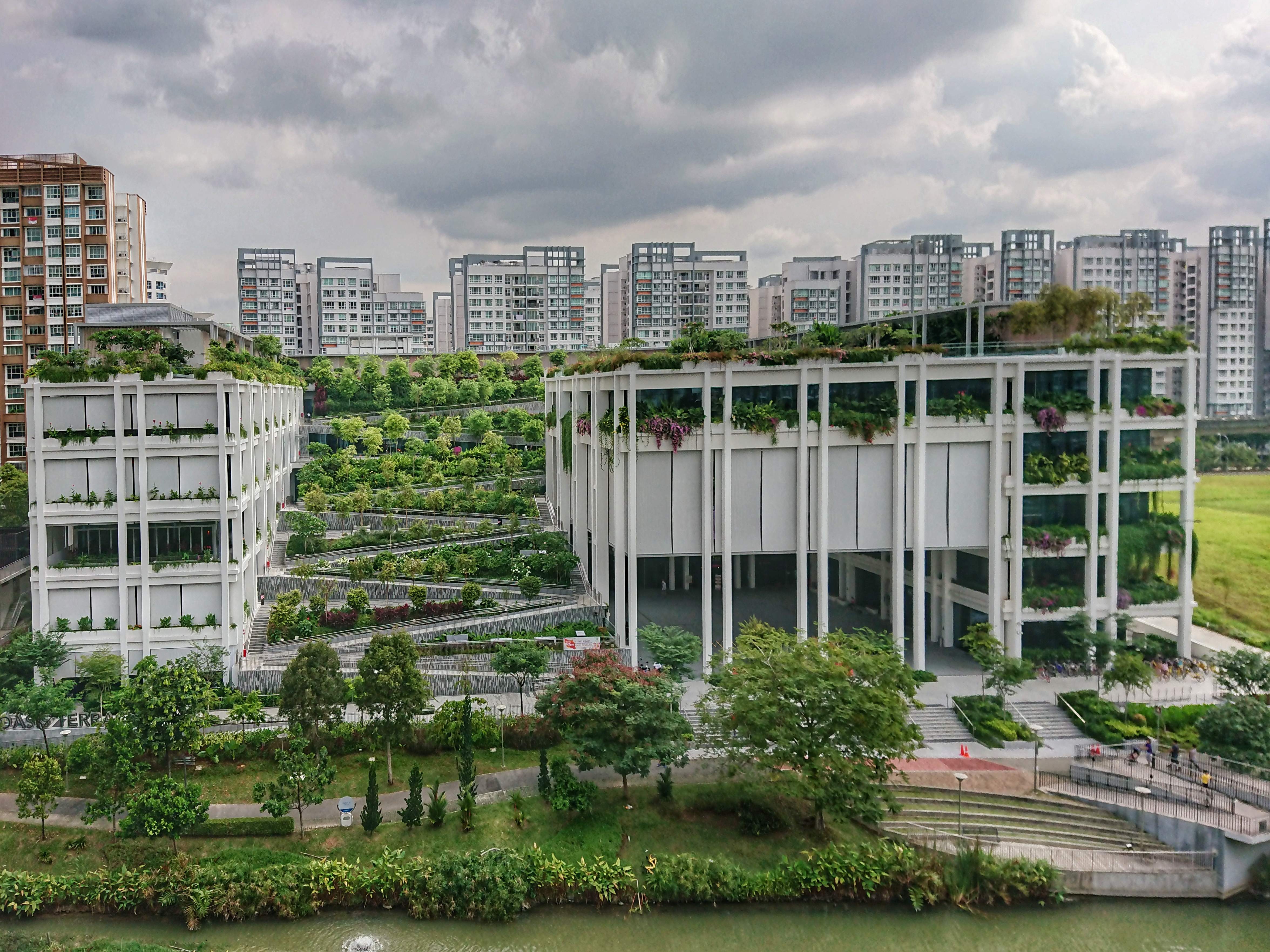 View of Oasis Terraces in 2018. Taken with Xperia XZ Premium.